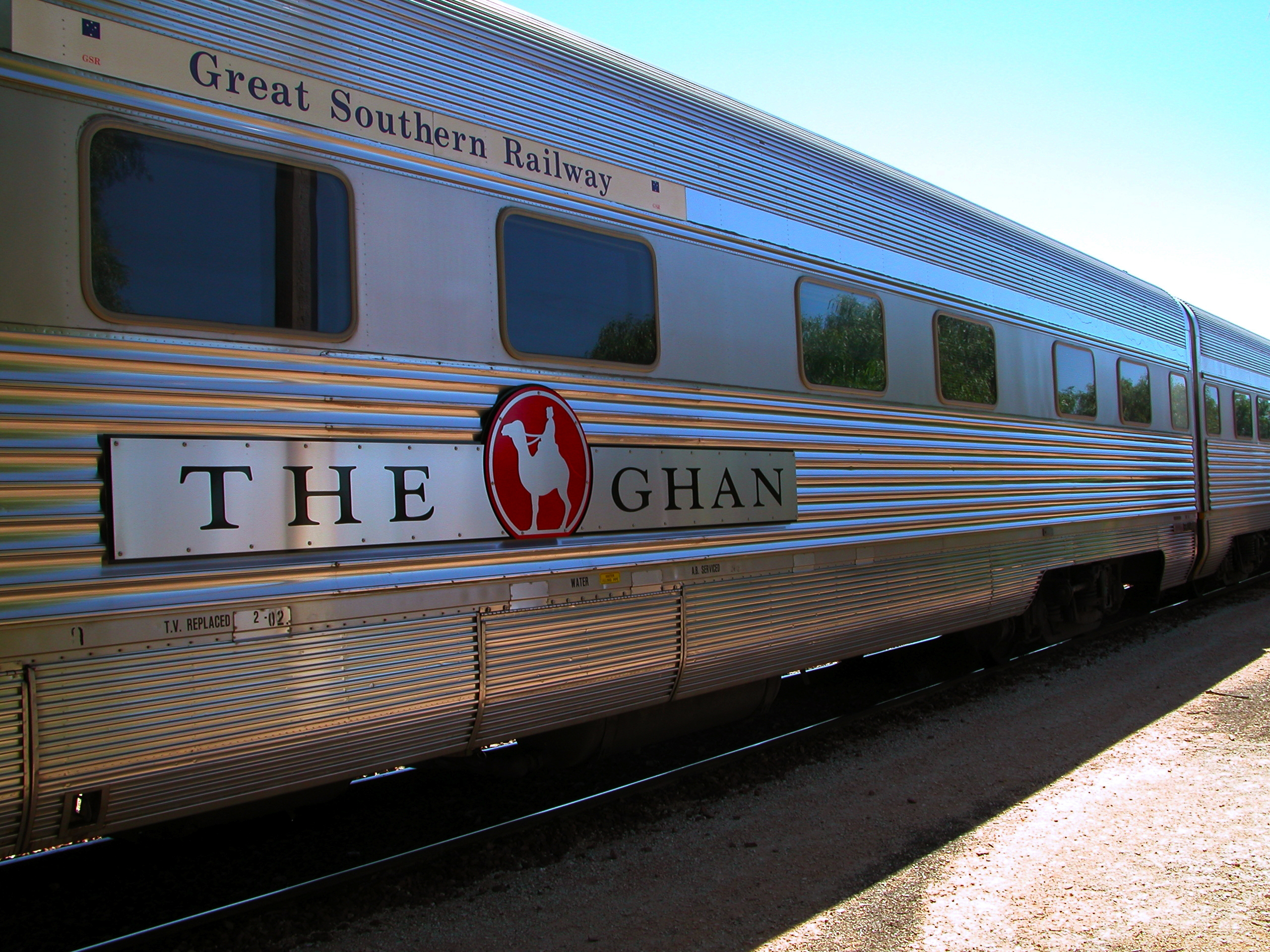 Side view of a passenger car showing the livery of The Ghan train when it was operated by the Great Southern Railway. The photo was taken at Cook, a stopping place on the east-west Trans-Australian Railway, when the car was part of the Indian Pacific train.